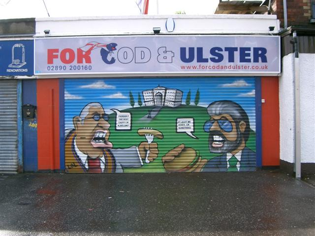 Fish and Chip Shop - A Sign of the Times 'For God and Ulster' has long been a slogan and a motto for many Ulster protestants. The owner of this chip shop in a predominantly protestant part of East Belfast, has used an amusing variation of this slogan in naming his premises. This is a sign of the change in attitudes in the past year. This kind of depiction, showing Ian Paisley 'sitting down', let alone eating with, Gerry Adams would, until recently, have been unthinkable. 526811